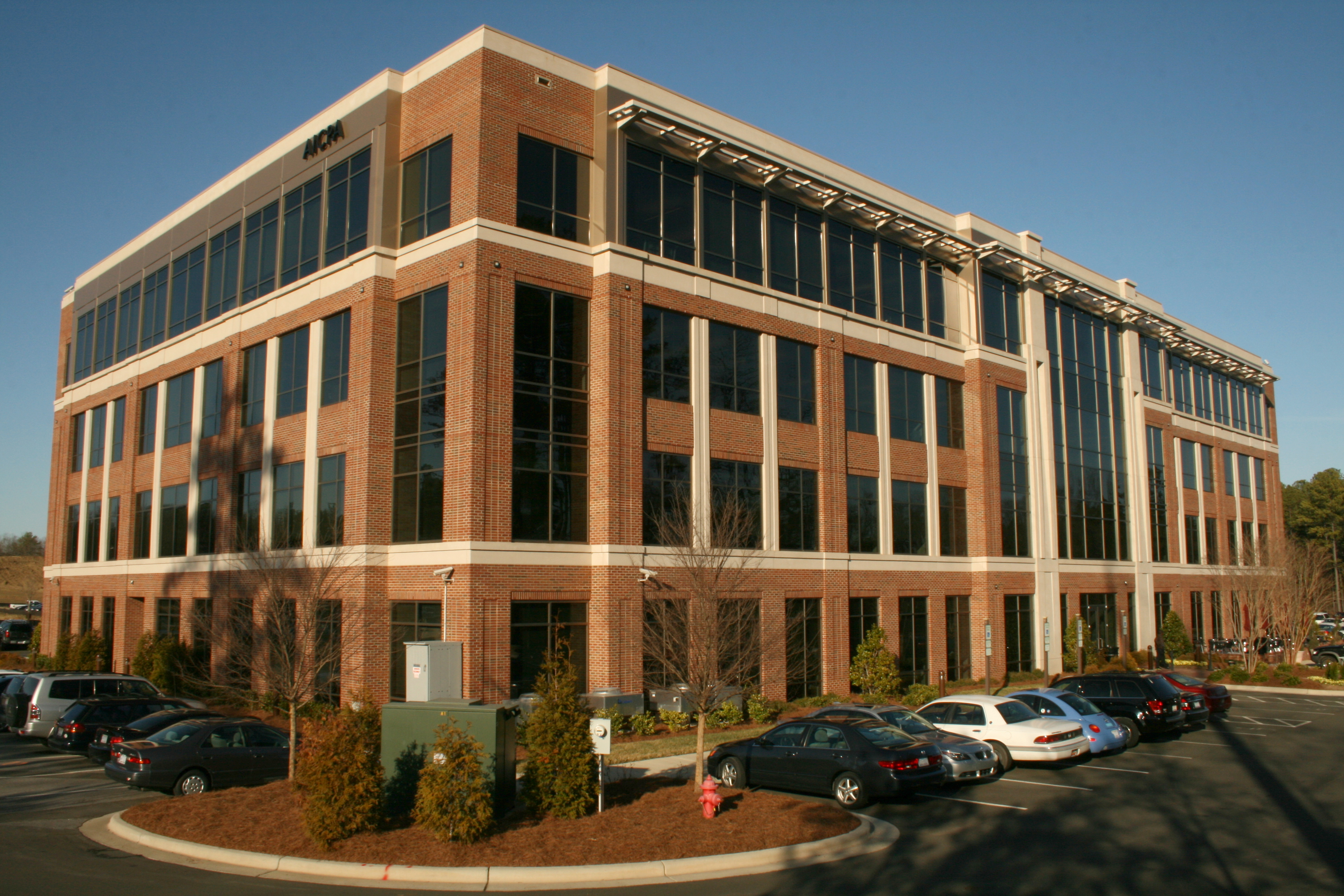 The offices of the American Institute of Certified Public Accountants (AICPA) at Palladian Office Park (220 Leigh Farm Road) in Durham, North Carolina.